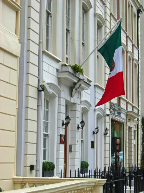 Mexican Embassy, Mayfair The Mexican Embassy is housed in this elegant building on St George Street, just south of Hanover Square.